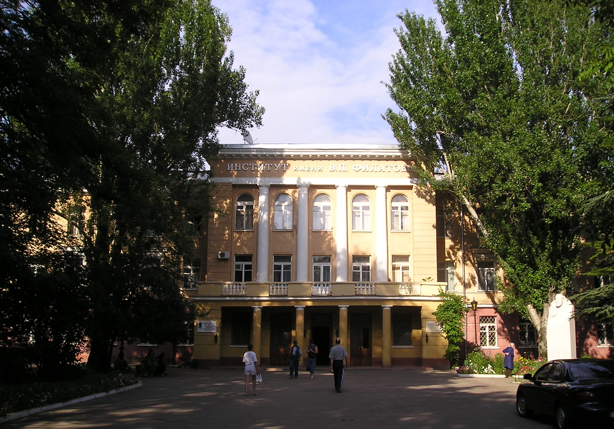 The photo of the main bгilding of the SI "The Filatov Institute of Eye Diseases and Tissue Therapy of the NAMS of Ukraine".